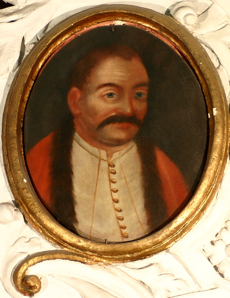 Portrait Jan Karol Opalinski in Sierakow Church